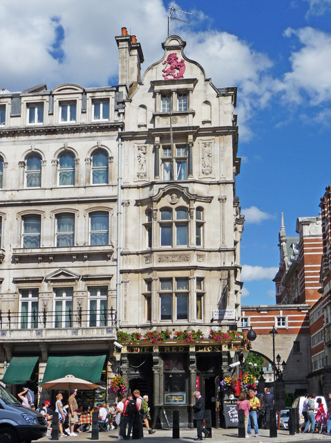 The Red Lion, Whitehall, London SW1 It is interesting to see the figure of a red lion above the top window of this building.